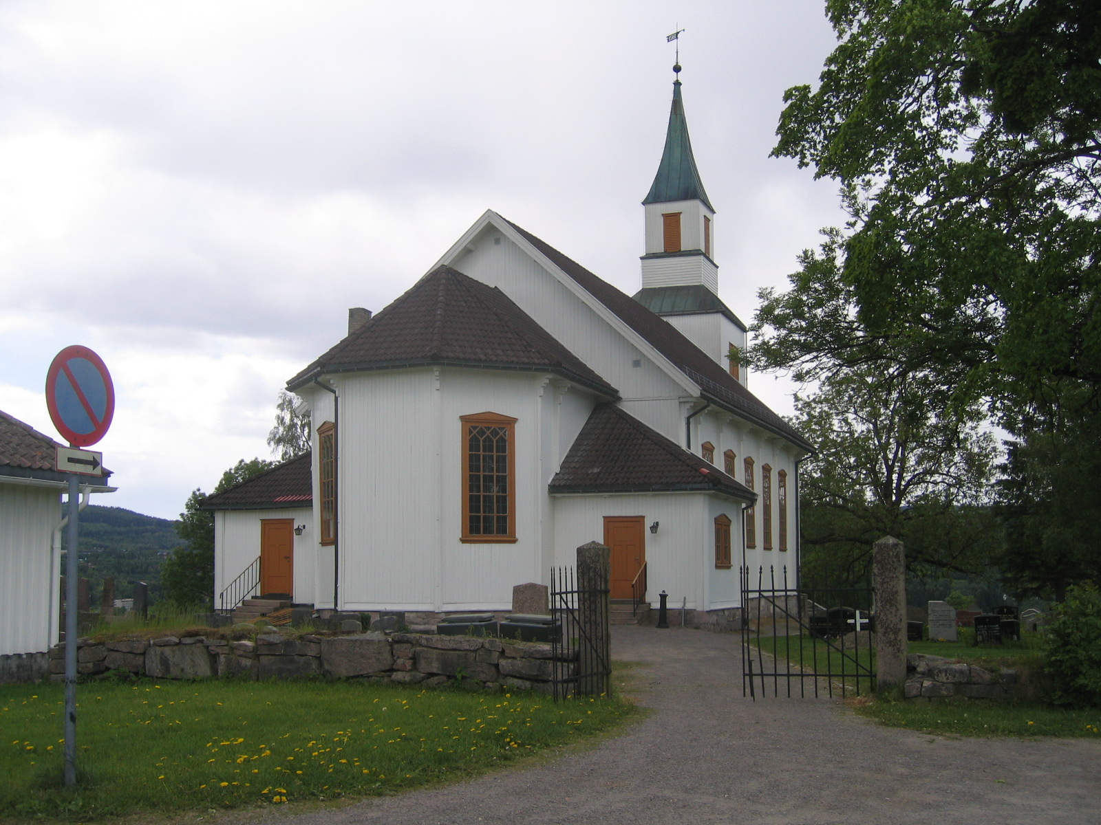 Nittedal church, Norway